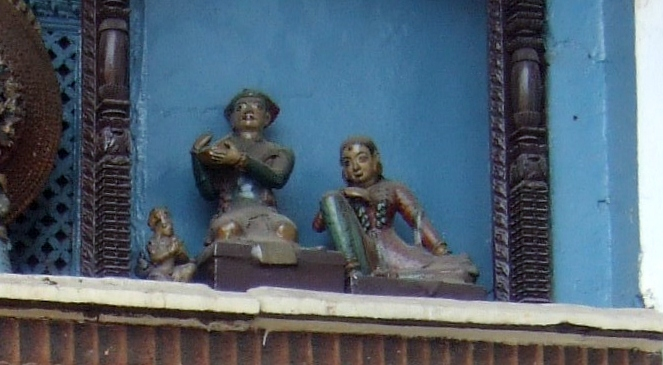 Statue of Pratap Malla, playing a lute, with his queen above the Hanuman Dhoka gate.